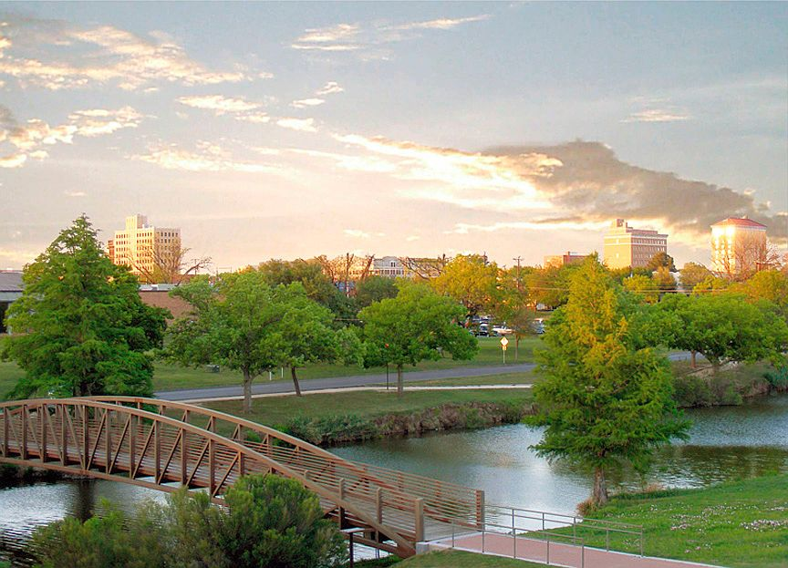 Park along the Concho River in San Angelo, Texas at sunset.